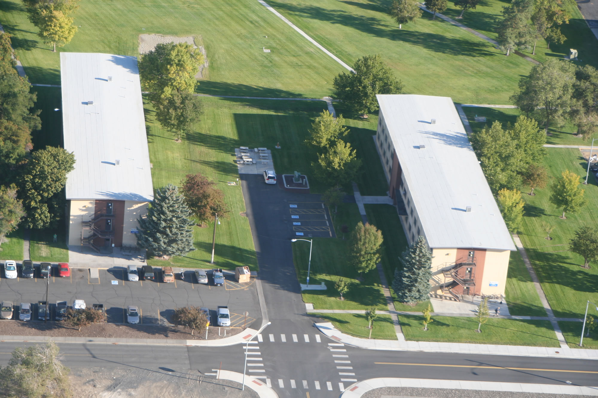 BBCC’s dorm rooms are large by today’s standards for college residence halls. Amenities include fiber optic internet, TV lounges, free laundry facilities, free parking, air conditioning, and kitchens for cooking meals.